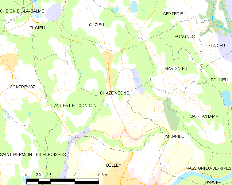 Map of French commune: Chazey-Bons Map commune FR insee code 01098.png